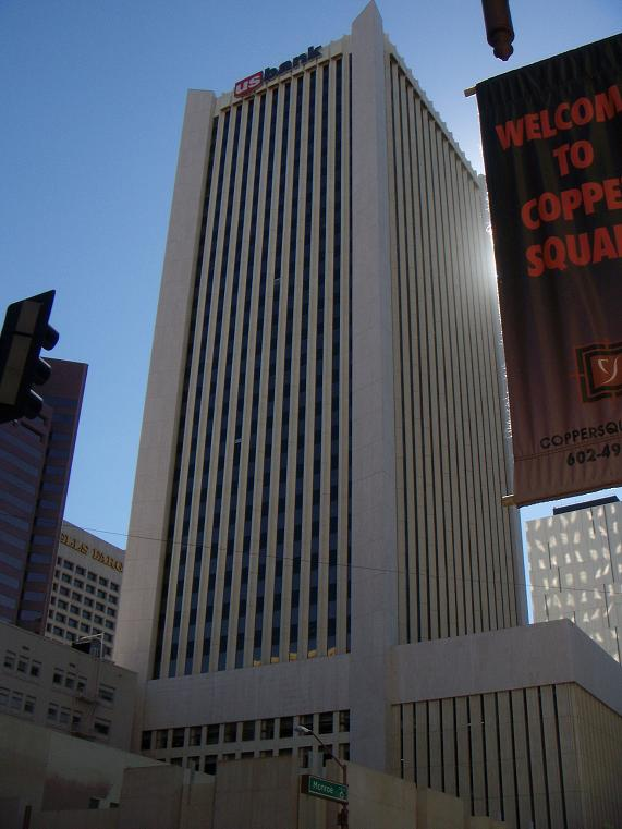 US